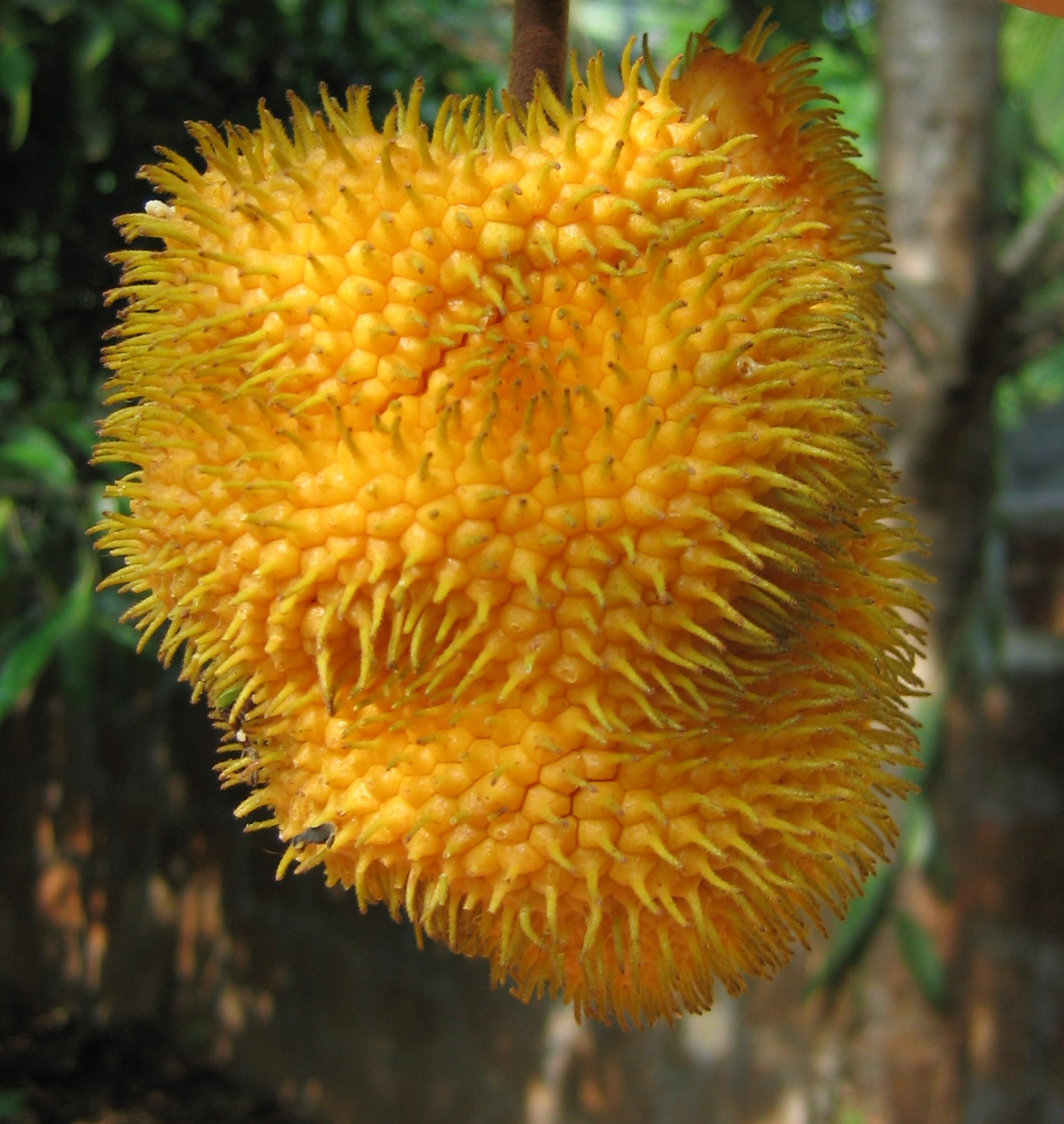 Artocarpus hirsutus fruit - ആനിക്കാ വിള അഥവാ ആഞ്ഞിലിചക്ക പഴം